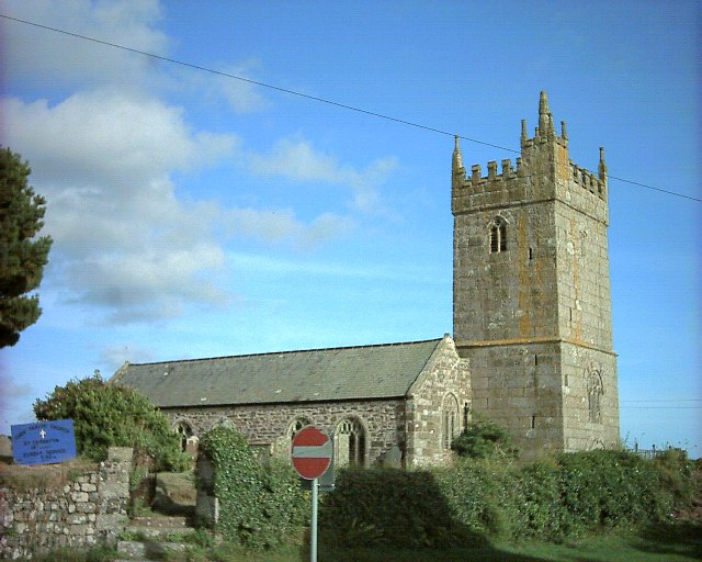 Curry Church